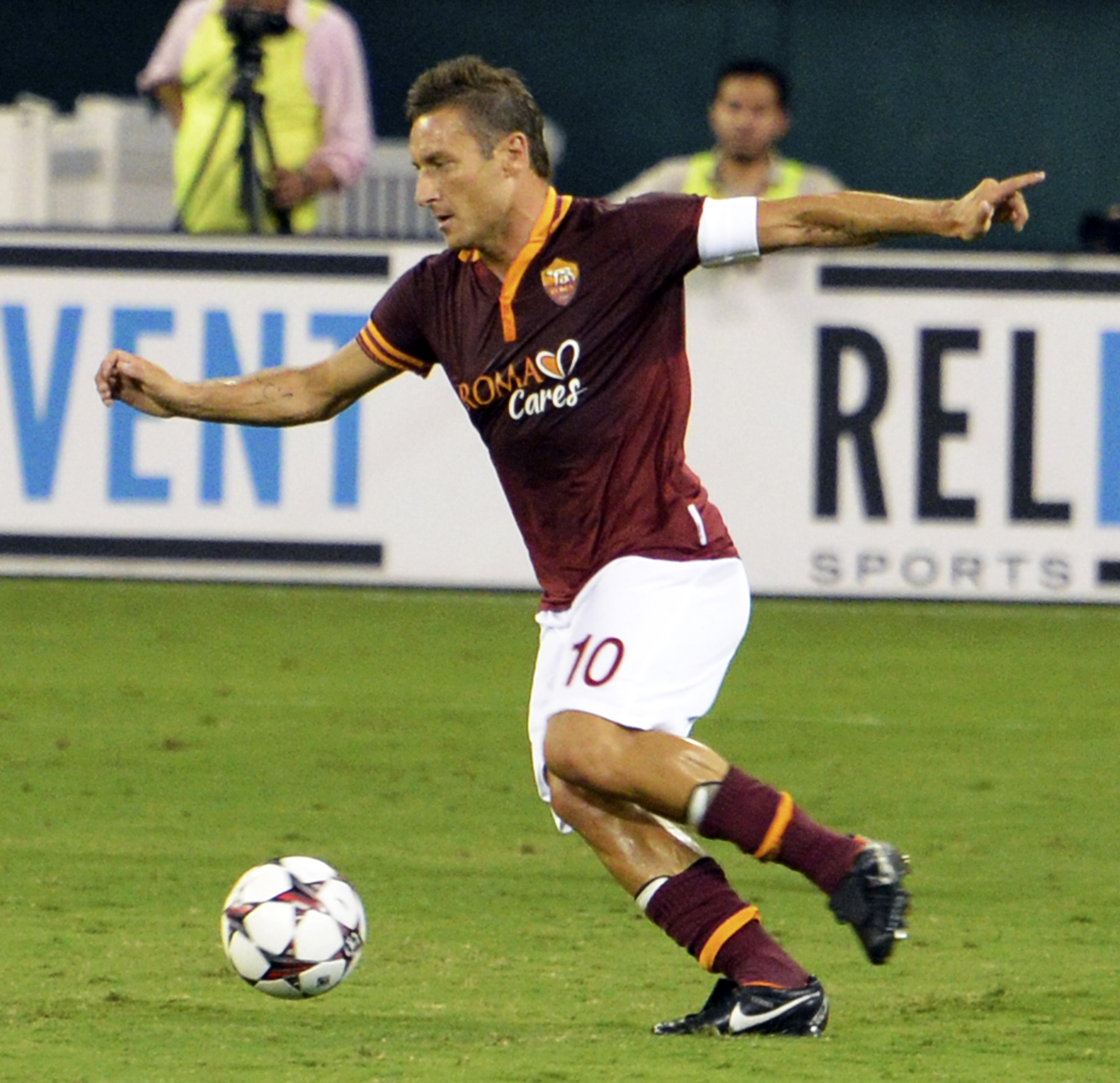 Franceso Totti for A.S. Roma working the ball up the pitch in a friendly game against Chelsea FC. Game was played at Robert F. Kennedy Memorial Stadium in Washington D.C. on 10AUG2013